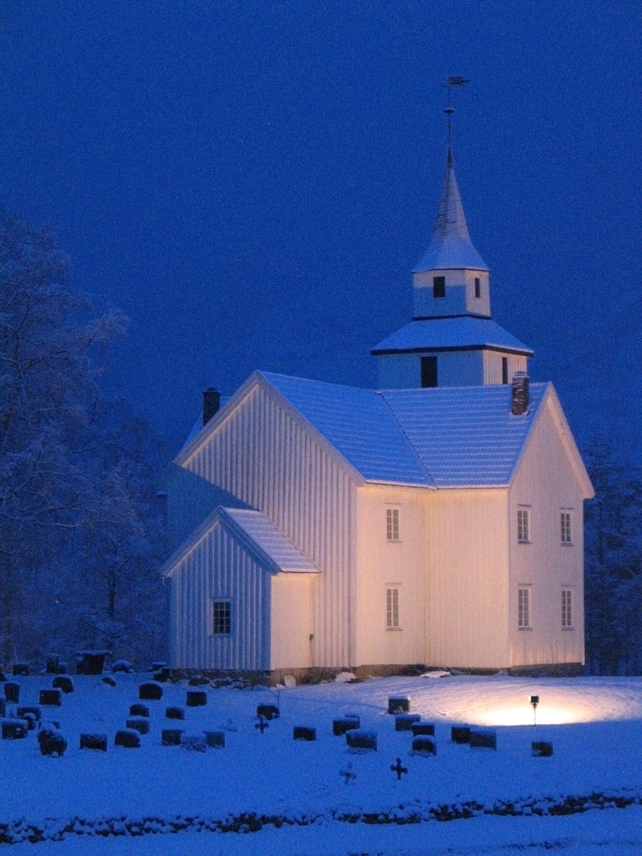 Bygland ChurchNorsk bokmål: Bygland kirkeNorsk nynorsk: Bygland kyrkje